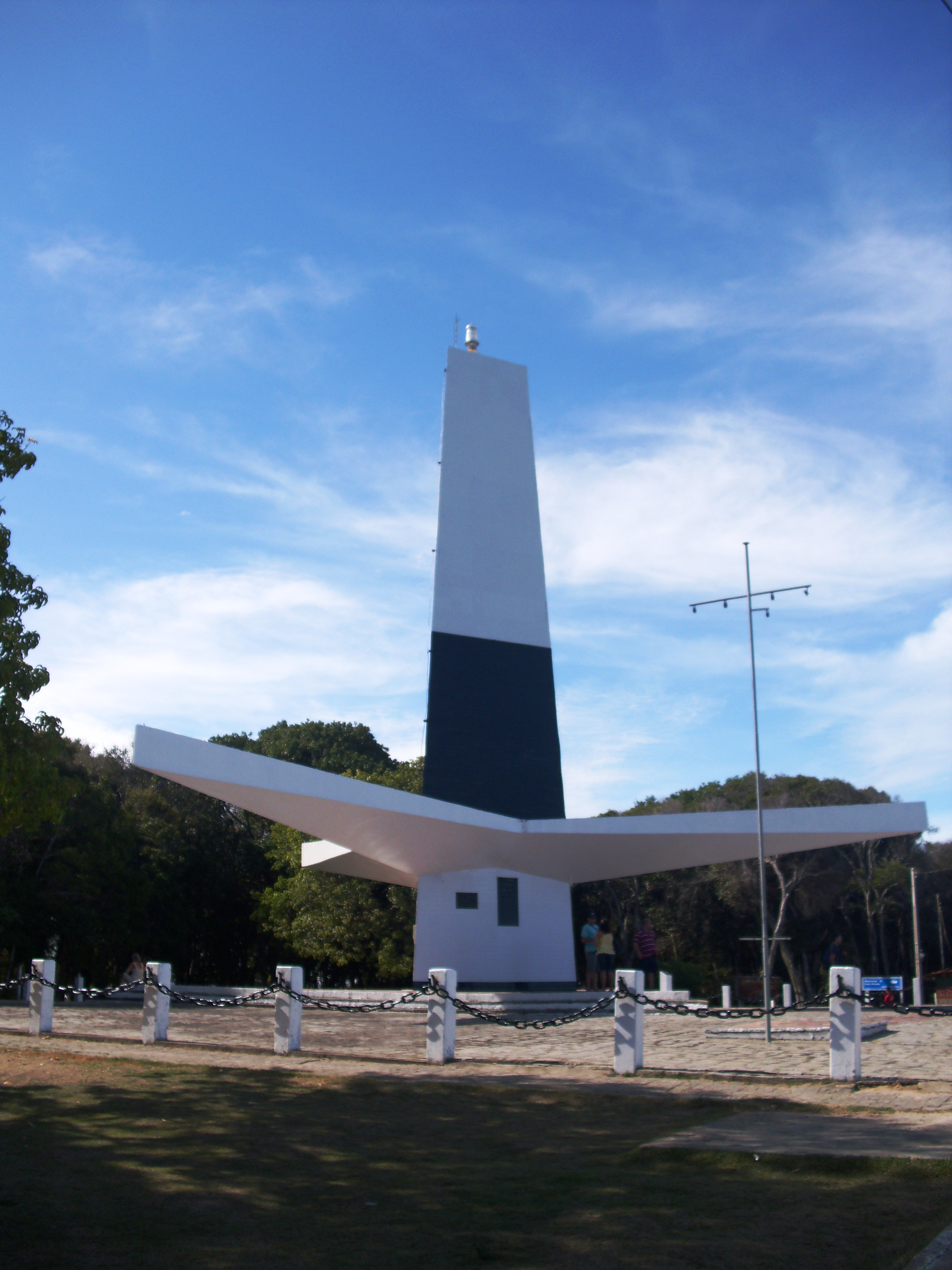 The Cape Blanco Lighthouse is located in Ponta dos Seixas João Pessoa, Paraíba, Brazil, the easternmost point of the American Continent.